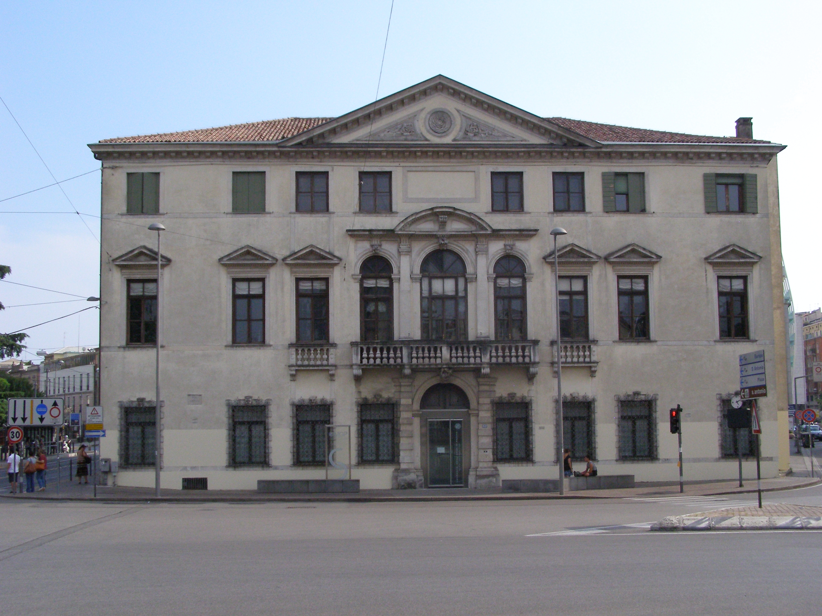 Padua - Palazzo Cavalli, currently Museum of Geology and Paleontology